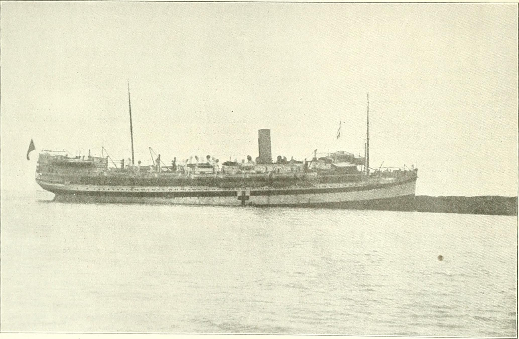 Title: Shipbuilding and Shipping Record Year: 1918 (1910s) Authors: Subjects: Publisher: London Text Appearing Before Image: THE TORPEDOED REWA. "The loss of the Rewa was officially announced by the Secretary of the Admiralty in the following communique:— "His Majesty's hospital ship Rewa was torpedoed and sank in the Bristol Channel about midnight on January 4 on her way home from Gibraltar. "All the wounded were safely transferred to patrol vessels, and there were only three casualties among her crew, three Lascars being missing. "She was displaying all the lights and markings required by the Hague Convention, and she was not—and had not been—within the so-called barred zone as delimited in the statement issued by the German Government on January 29, 1917."Full details of this crime have already appeared in the press,and it is unnecessary. therefore, to dwell further upon them, suffice Text Appearing After Image: The Torpedoed Hospital Ship Rewa. "it to say that the Rewa is the sixth British hospital ship that has been torpedoed and sunk without warning. "The illustration shows the vessel as she appeared when she was fitted out as a hospital ship." Separate notes: (not from the page in the book from which the image is taken) Rewa ran aground at the Suez Canal in November 1906 but was refloated.[1]. Later in 1918 she was hit by a torpedo 19 mi (31 km) off Hartland Point. The ship took around two hours to sink, allowing all wounded and ship's crew to board lifeboats except for the four engine men who died in the initial explosion.She was not grounded at any point during that incident.[2] The transport “Rewa” entered the Suez Canal carrying the 2nd Battalion Worcestershire Regiment homeward bound from Karachi in 1913[3]